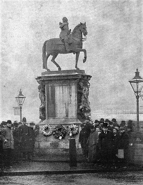 Statue of KIng Charles (London, January 1897), at a ceremony organised by the Legitimist Club